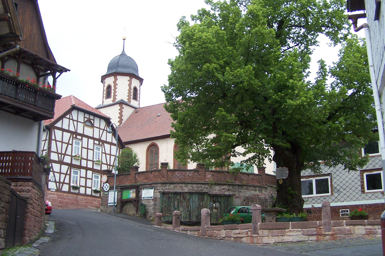 The village green in Dermbach.